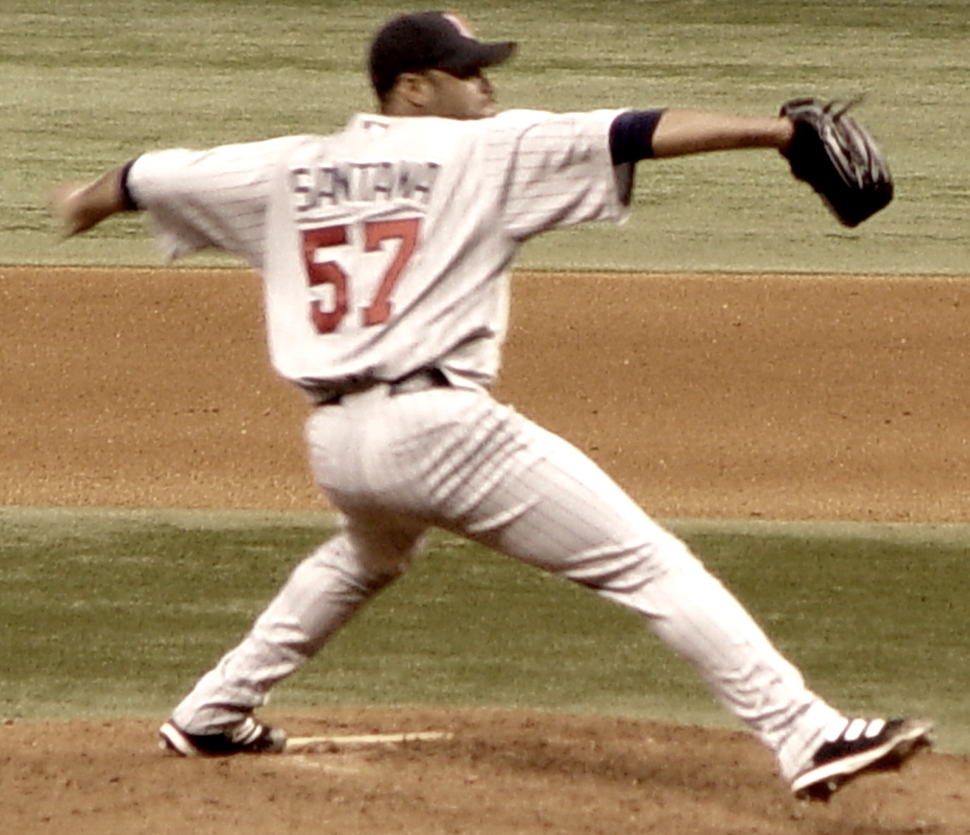 Johan Santana pitching to the Tampa Bay Devil Rays, May, 2005. 15:20, 2 June 2005 . . Googie man . . 1,376×1,185 (349 KB)